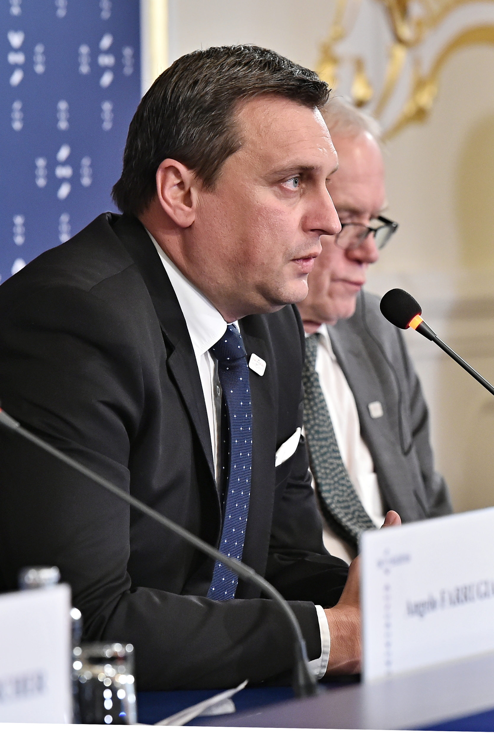 National Council of the Slovak Republic Mr Andrej Danko, Speaker Of The National Council of The Slovak Republic - Estonian Parliament Mr Eiki Nestor Photo Rastislav Polak